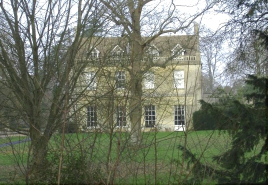 Dauntsey Park Screened by trees, this house was once the centre of a large estate.